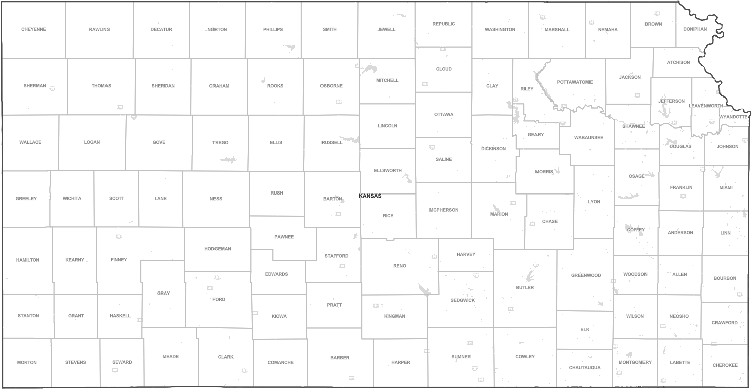 A map of the 105 counties making up the US state of Kansas. County names are listed.